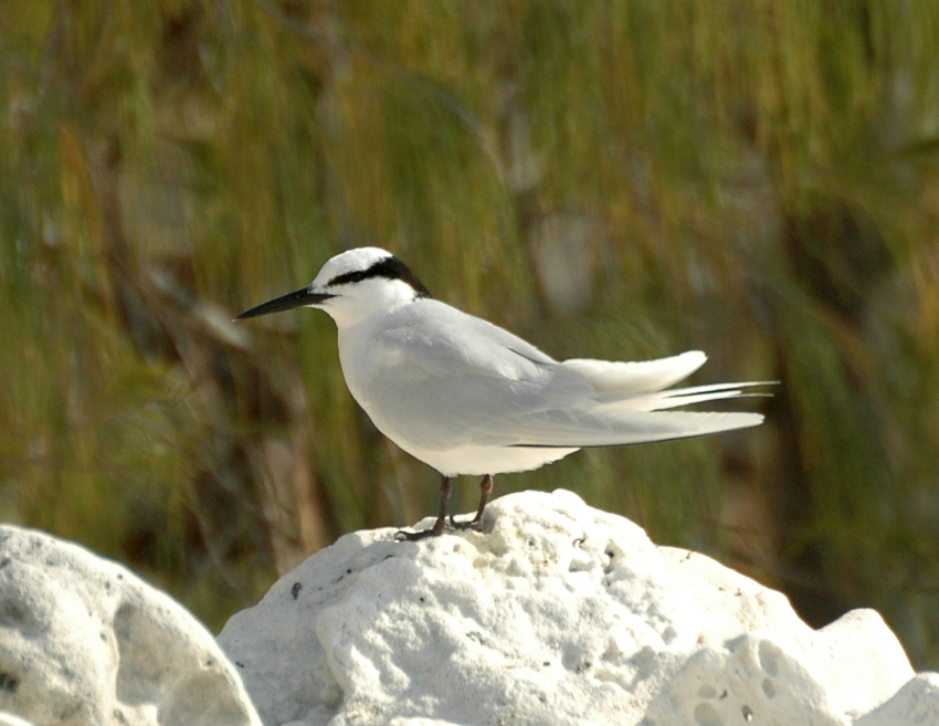 Black-naped Tern (Sterna sumatrana) Lady Elliot Island, Queensland, Australia